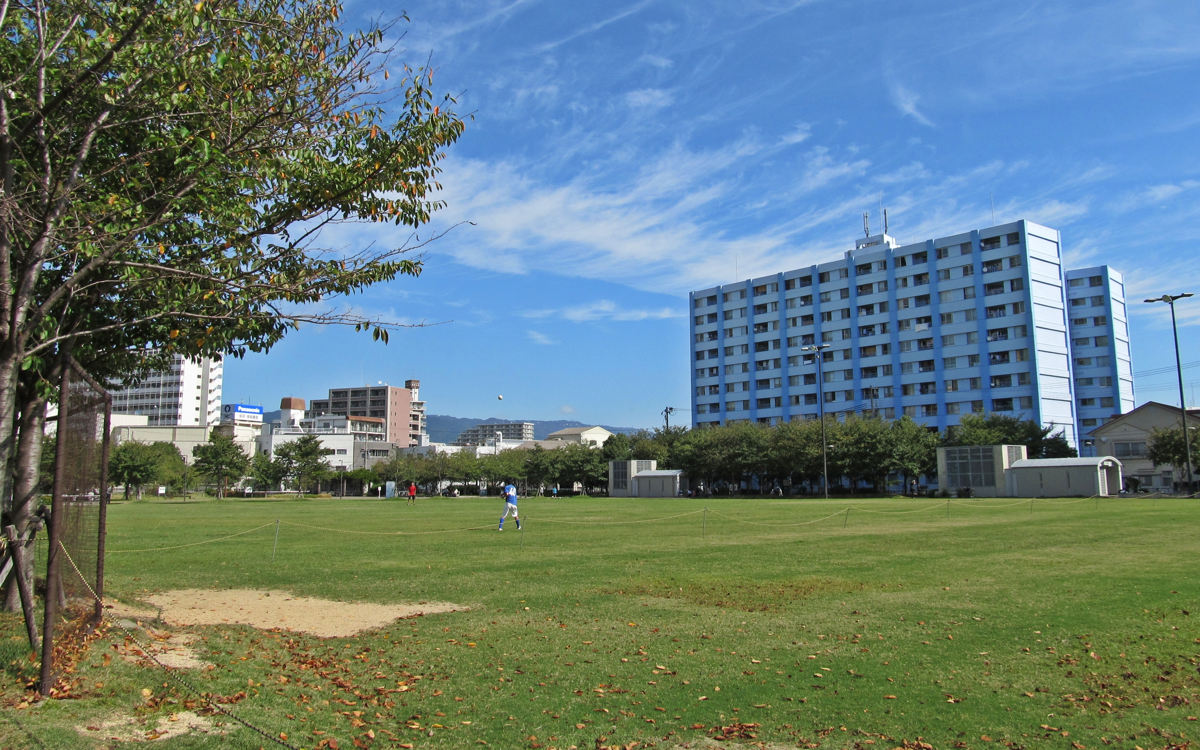 Misaki Park(Hyōgo-ku,Kobe,Hyogo,Japan)